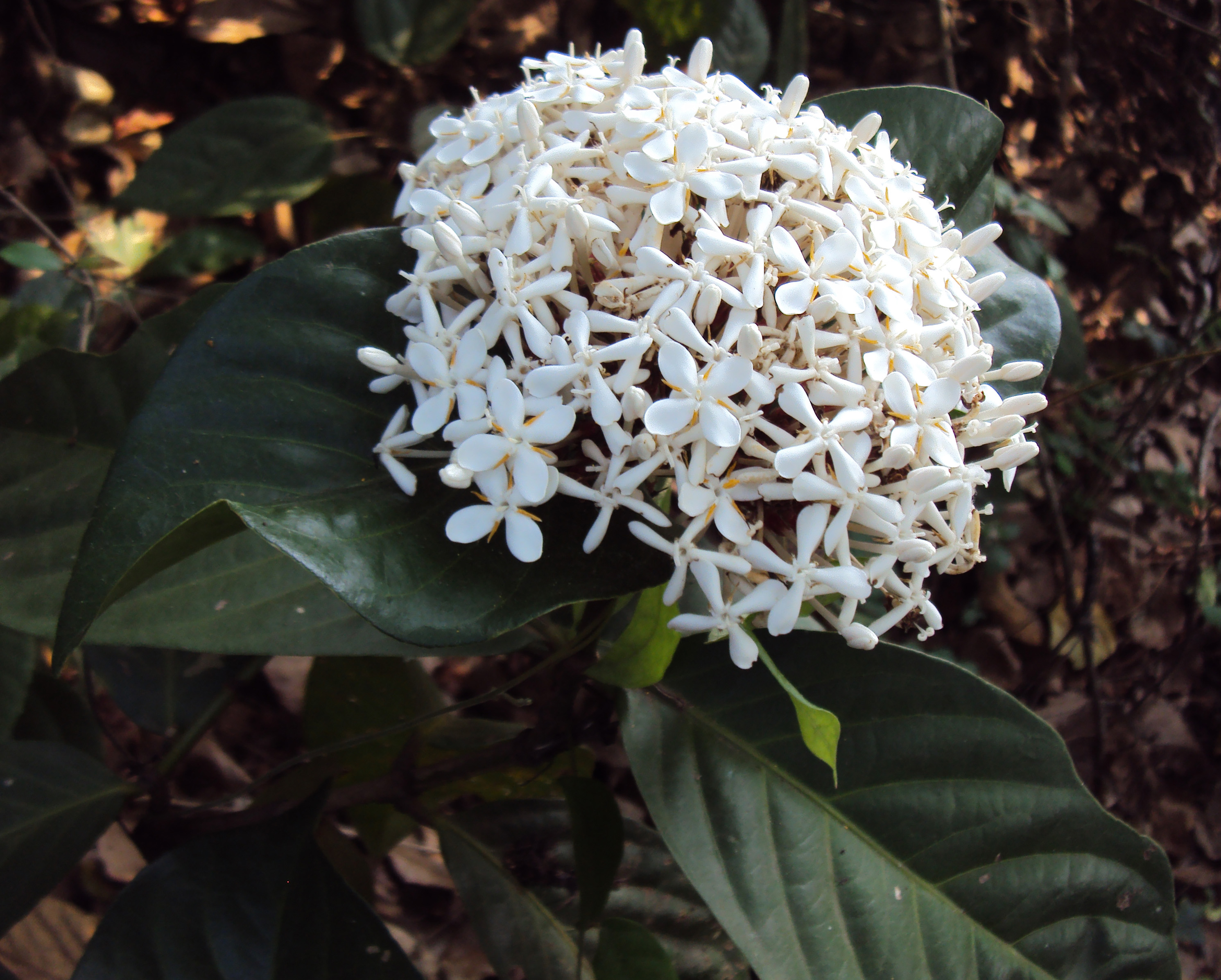 Ixora polyantha